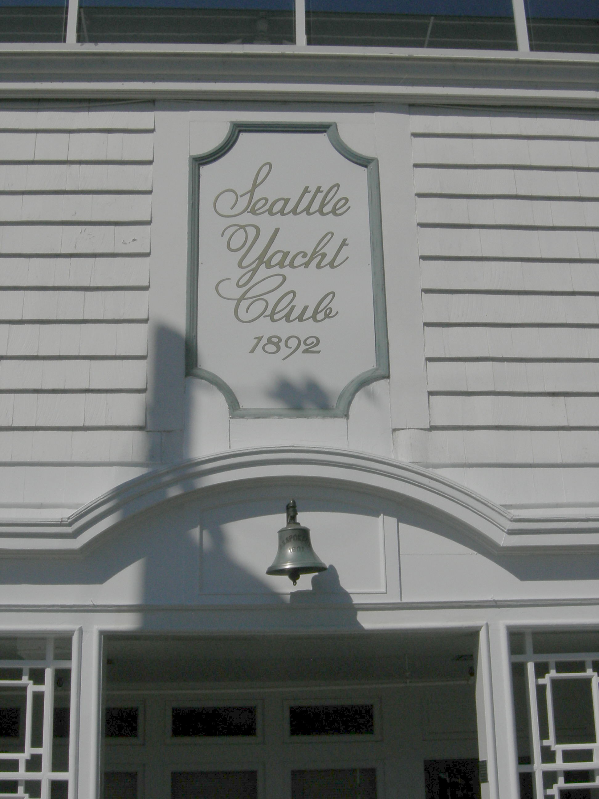 Clubhouse of the Seattle Yacht Club. Originally built in 1892 at the base of Duwamish Head, moved to its present location on Portage Bay in 1920 (when the Duwamish River was being rechanneled producing Harbor Island, etc.) The "main station" of the yacht club (the building and adjacent piers) was added to the National Register of Historic Places May 10, 2006; ID #06000370. [1]